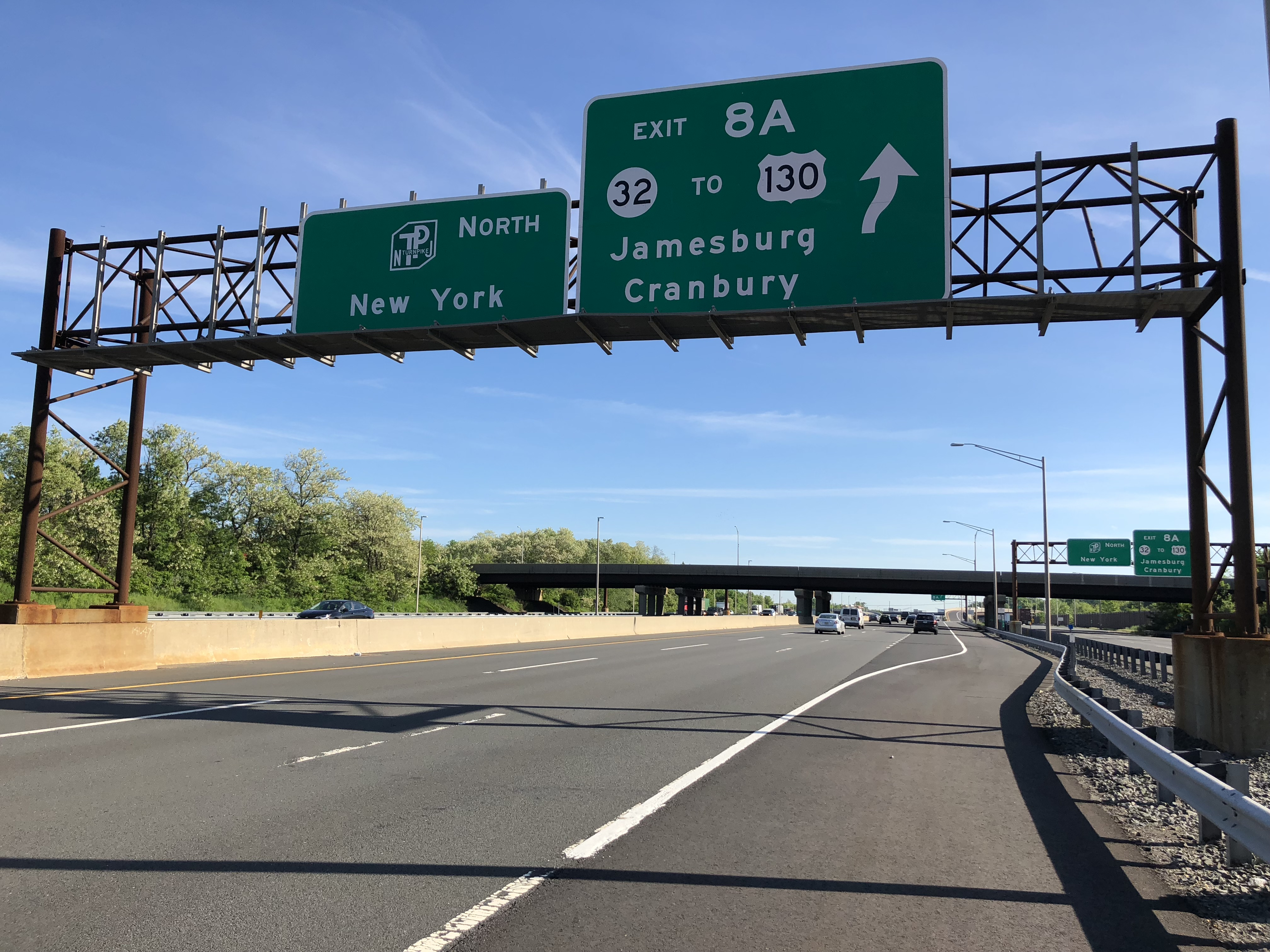 View north along Interstate 95 (New Jersey Turnpike) just south of Exit 8A (New Jersey State Route 32 to U.S. Route 130, Jamesburg, Cranbury) in Monroe Township, Middlesex County, New Jersey